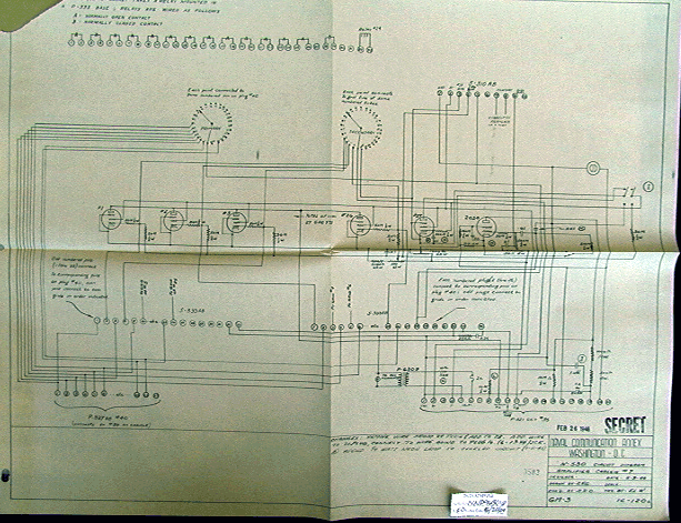 Schematic of a portion of the US Navy Cryptanalytic Bombe, designed and built in 1943 by the United States Naval Computing Machine Laboratory, Dayton, Ohio. This is an ampifier chassis drawing. Note that the drawing was previously SECRET but has subsequently been declassified.